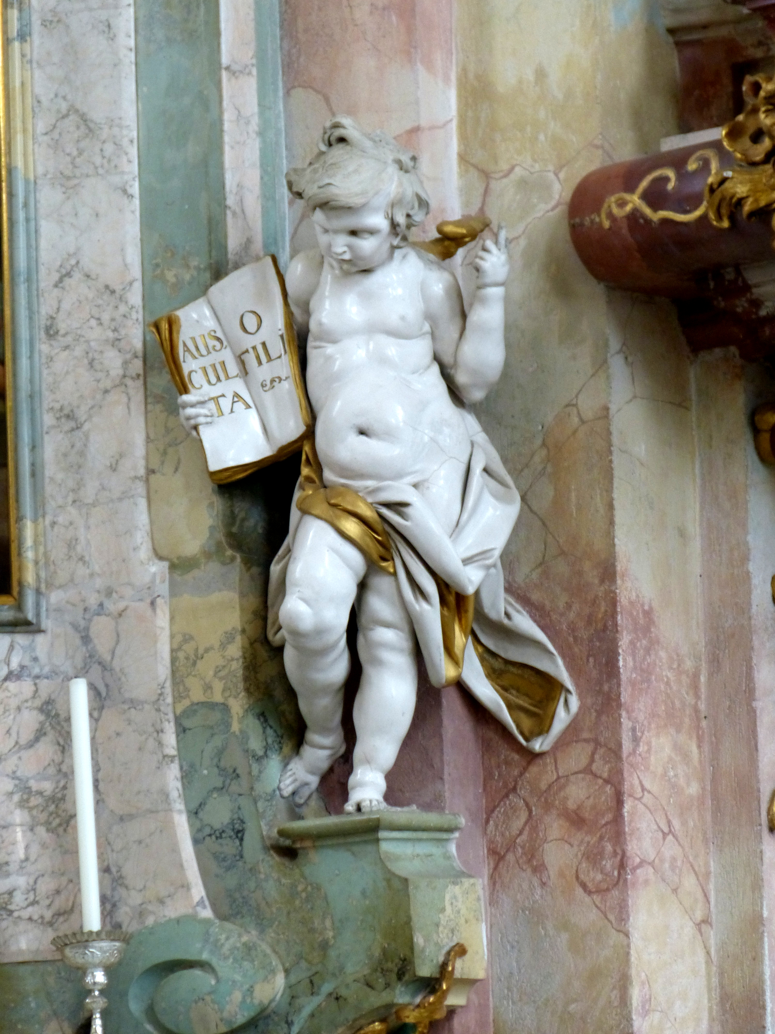 Birnau ( Baden-Württemberg ). Basilica of the Assumption of Mary ( 1750 ) - Altar of Saint Benedict of Nursia: Putto holding the initial words of the rule of Saint Benedict AUSCULTA O FILI ( Hear, my son )